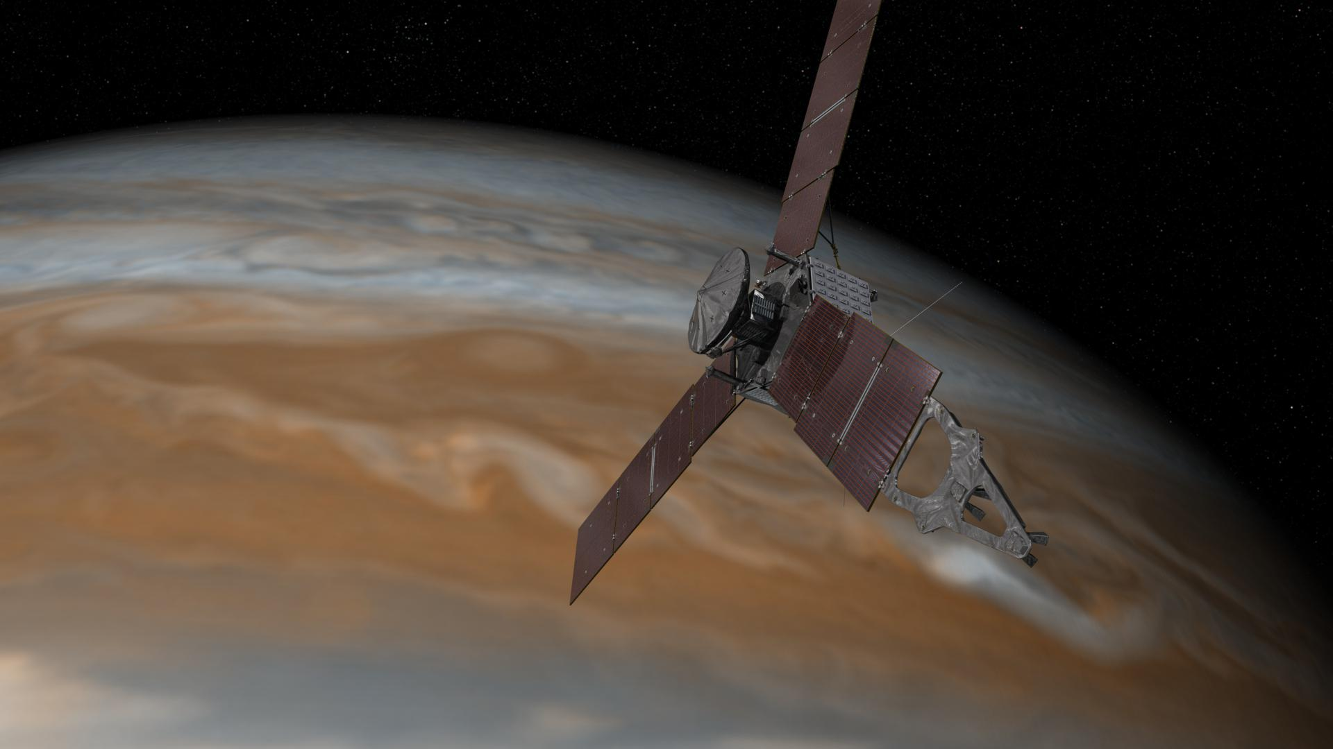 This artist's rendering shows NASA's Juno spacecraft making one of its close passes over Jupiter.